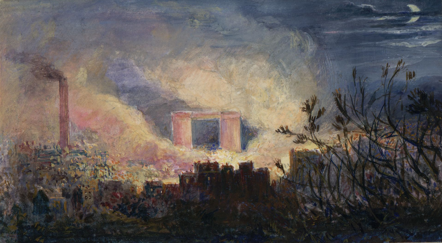 Examples of artwork on a variety of subjects and in a variety of styles by Francis Elizabeth Wynne from a sketchbook (ca. 420 drawings): mixed media, including watercolour, wash and, pen and ink.